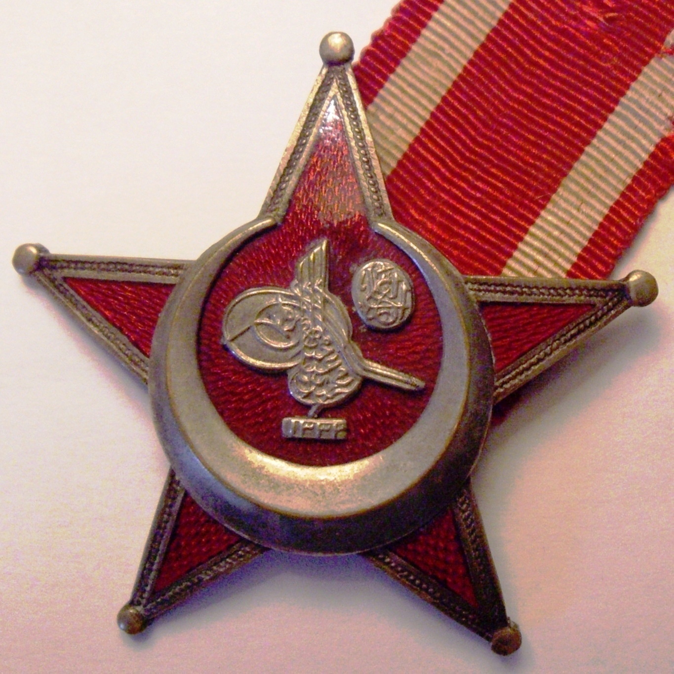 Gallipoli Star photographed from my collection.